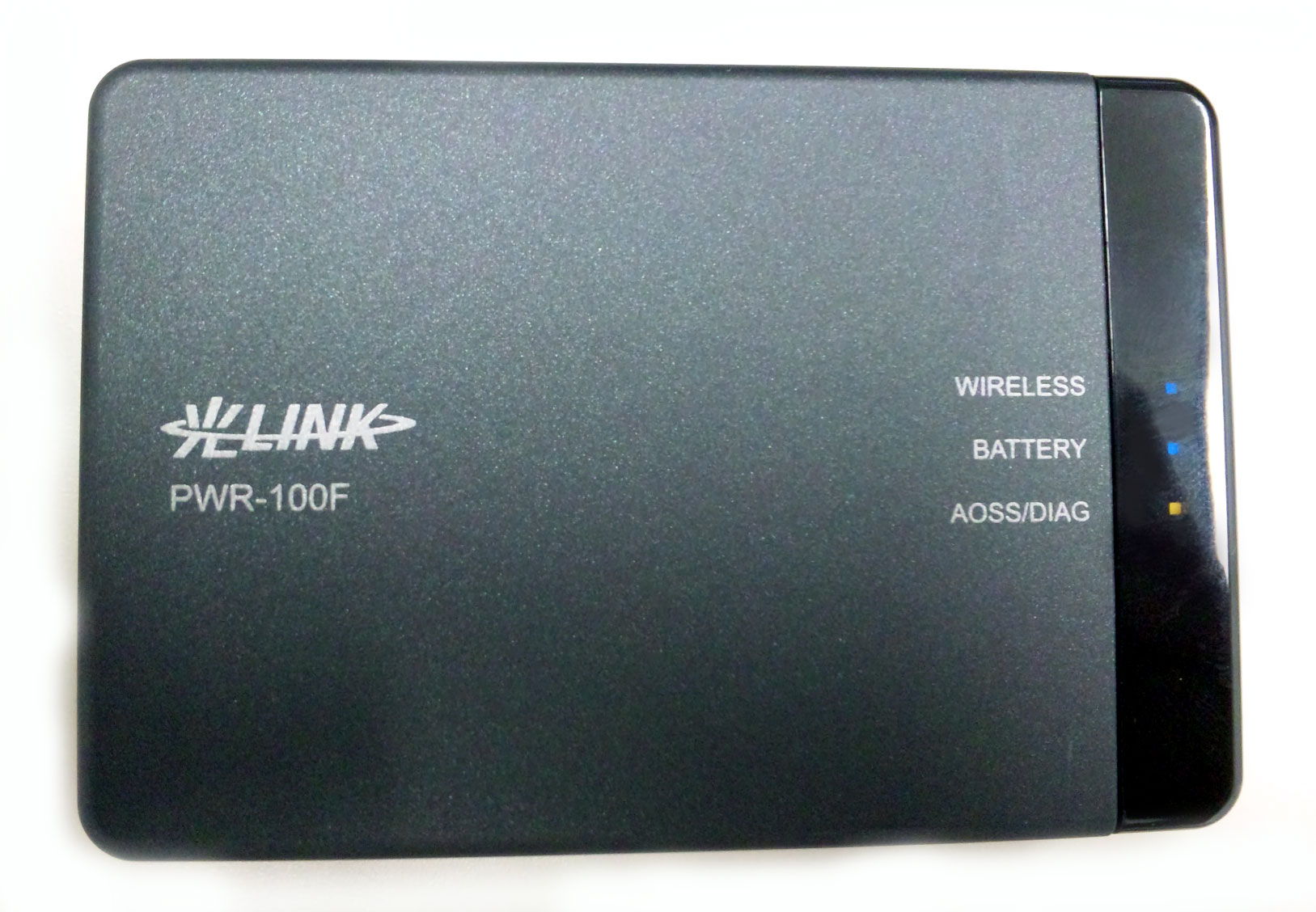 NTT WAST HIKARI Portable